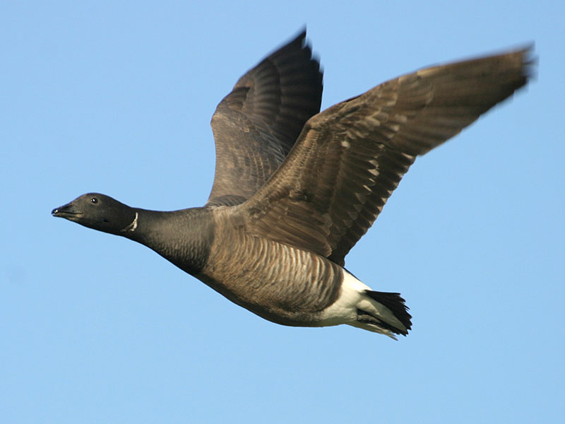 Image shows a Brent Goose (Branta bernicla).